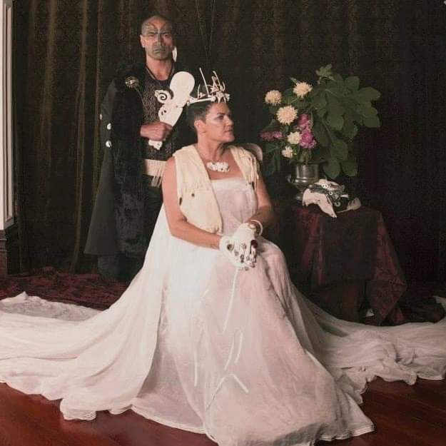 Art work by Suzanne Tamaki as The Queen presented in an exhibition